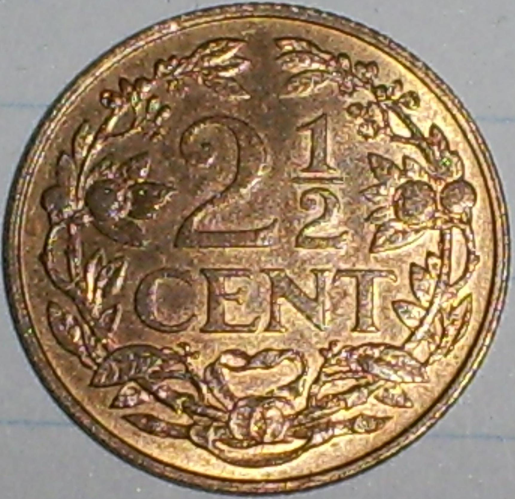 Head of the 2.5 cents coin, The Netherlands, 1941.